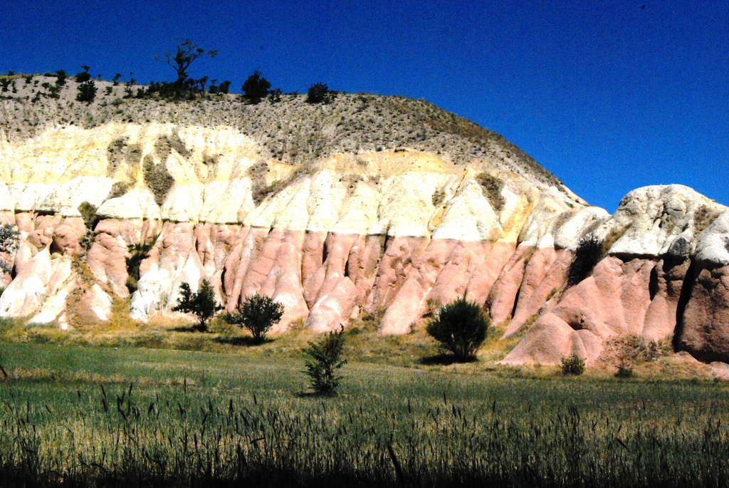 Mustafapaşa